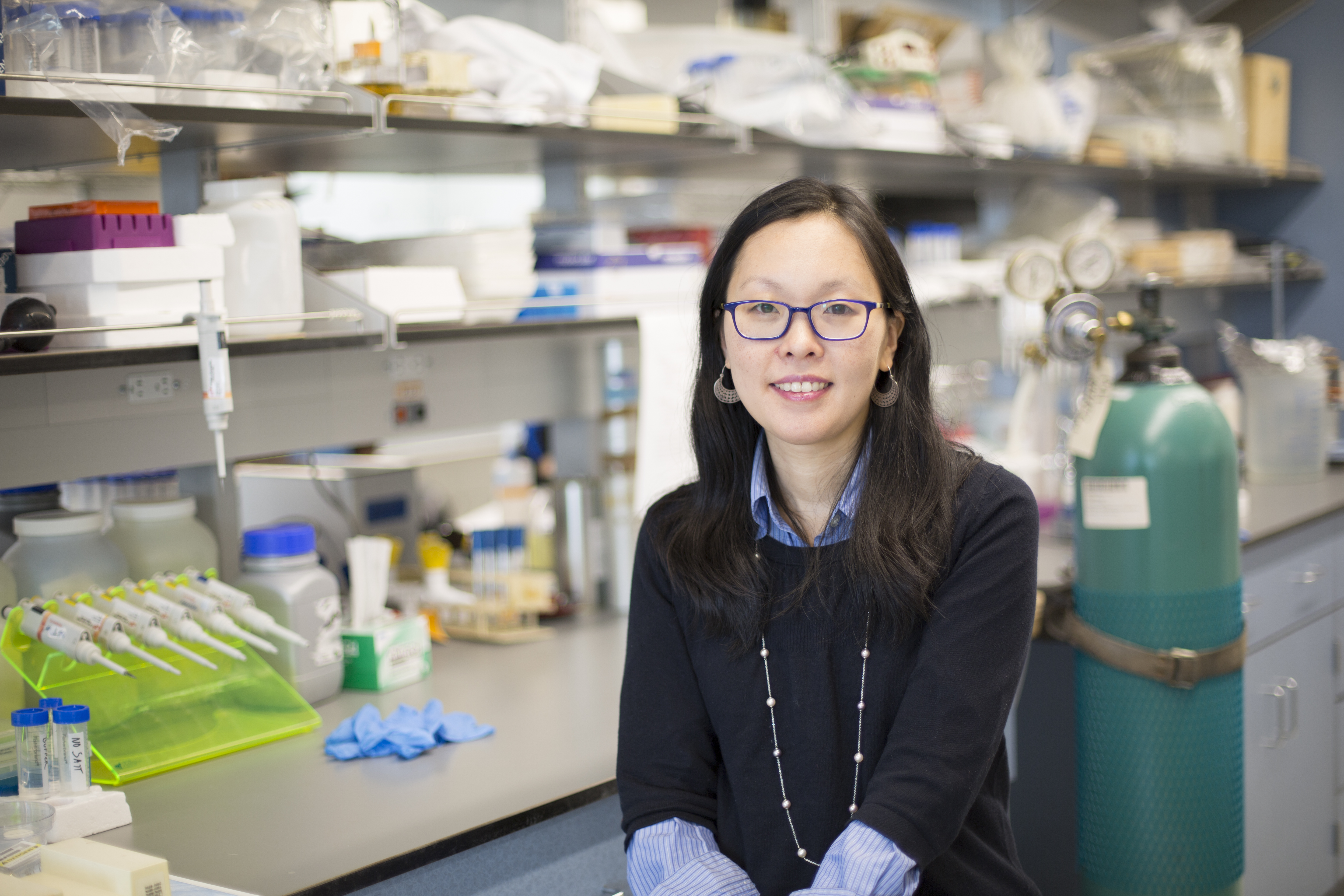 Jin Kim Montclare American professor of chemical and biomolecular engineering in her laboratory at the NYU Tandon School of Engineering.